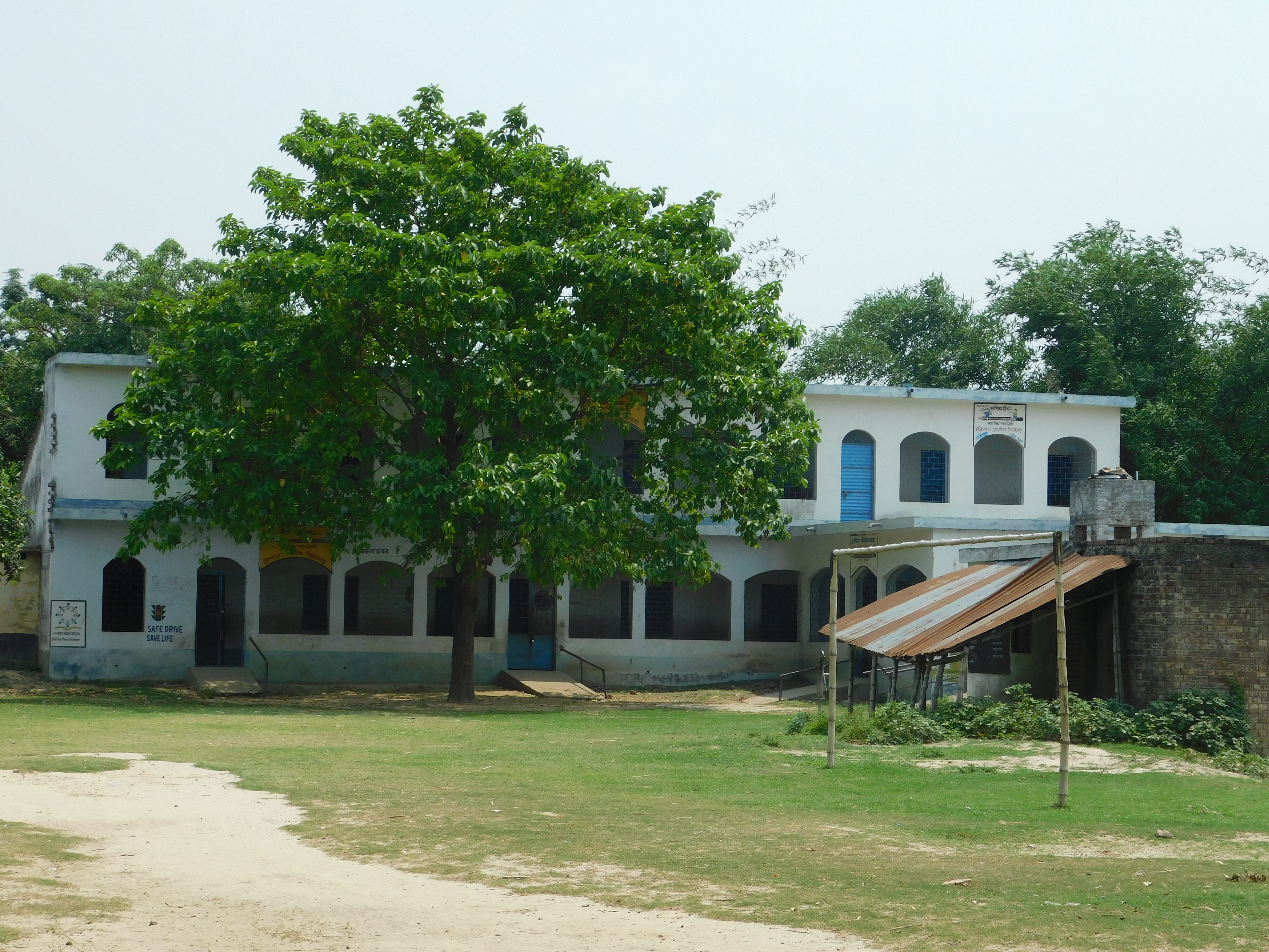 Topla Primary School